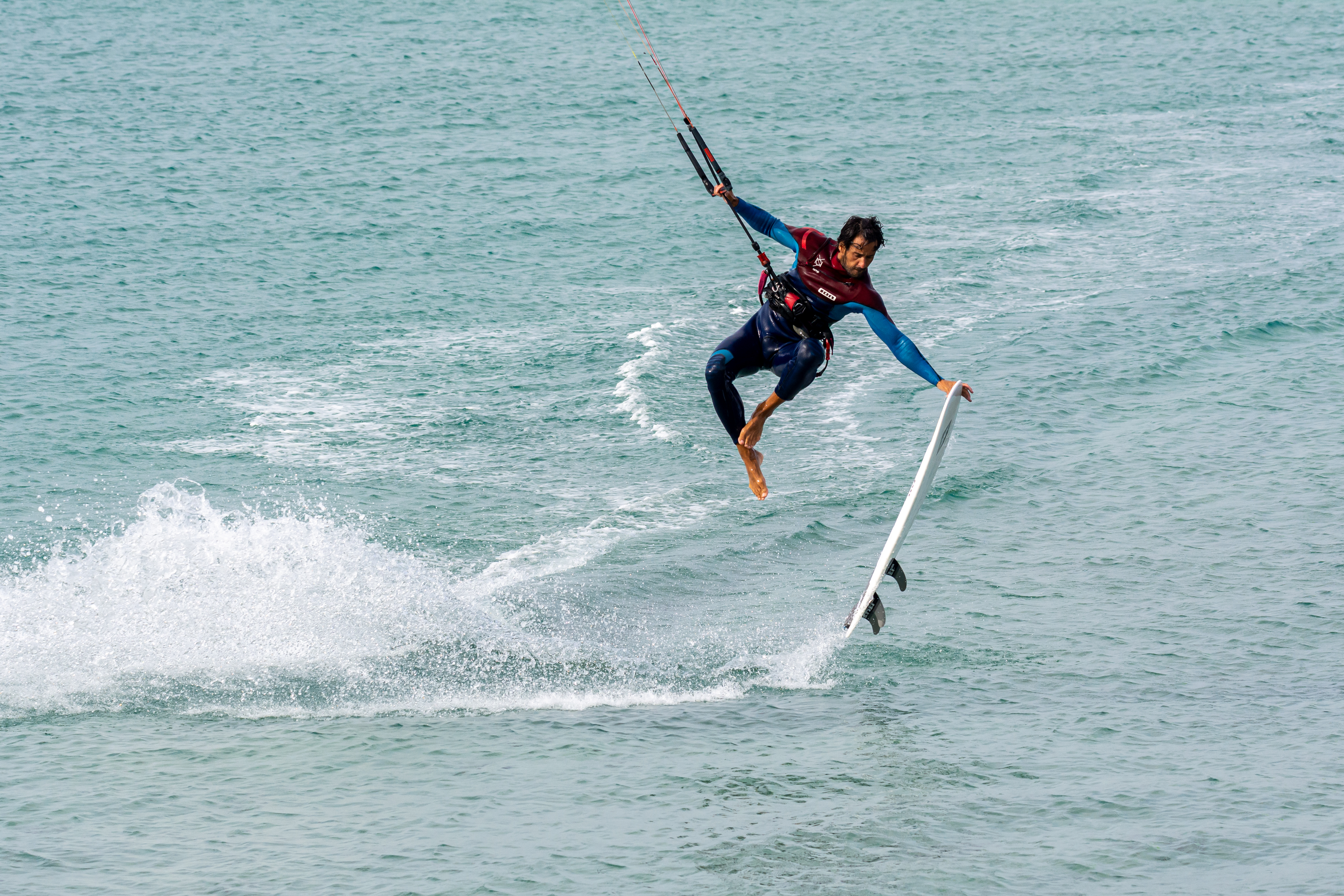 Kitesurfer with strapless board on the beach Los Lances of Tarifa, Spain